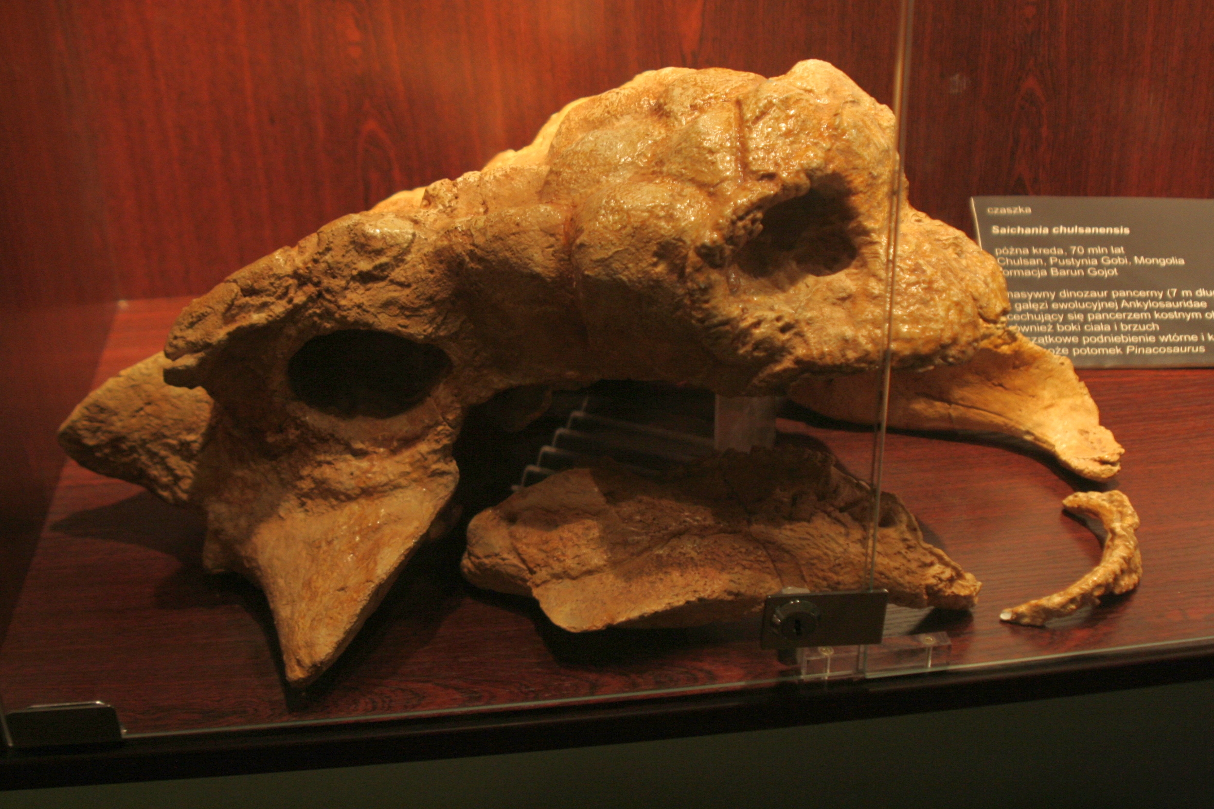 Skull of Saichania, Warsaw Museum of Evolution